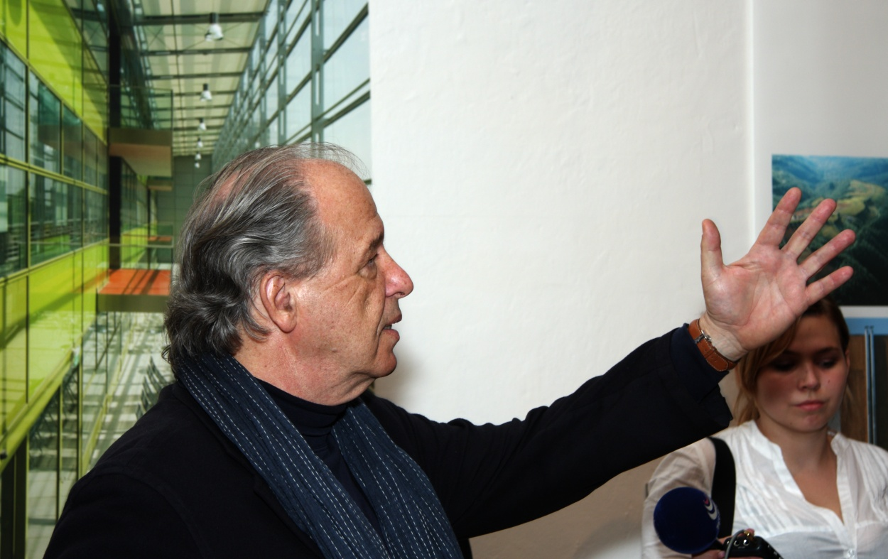 Boris Podrecca at the opening of his exhibition in Ostrava.